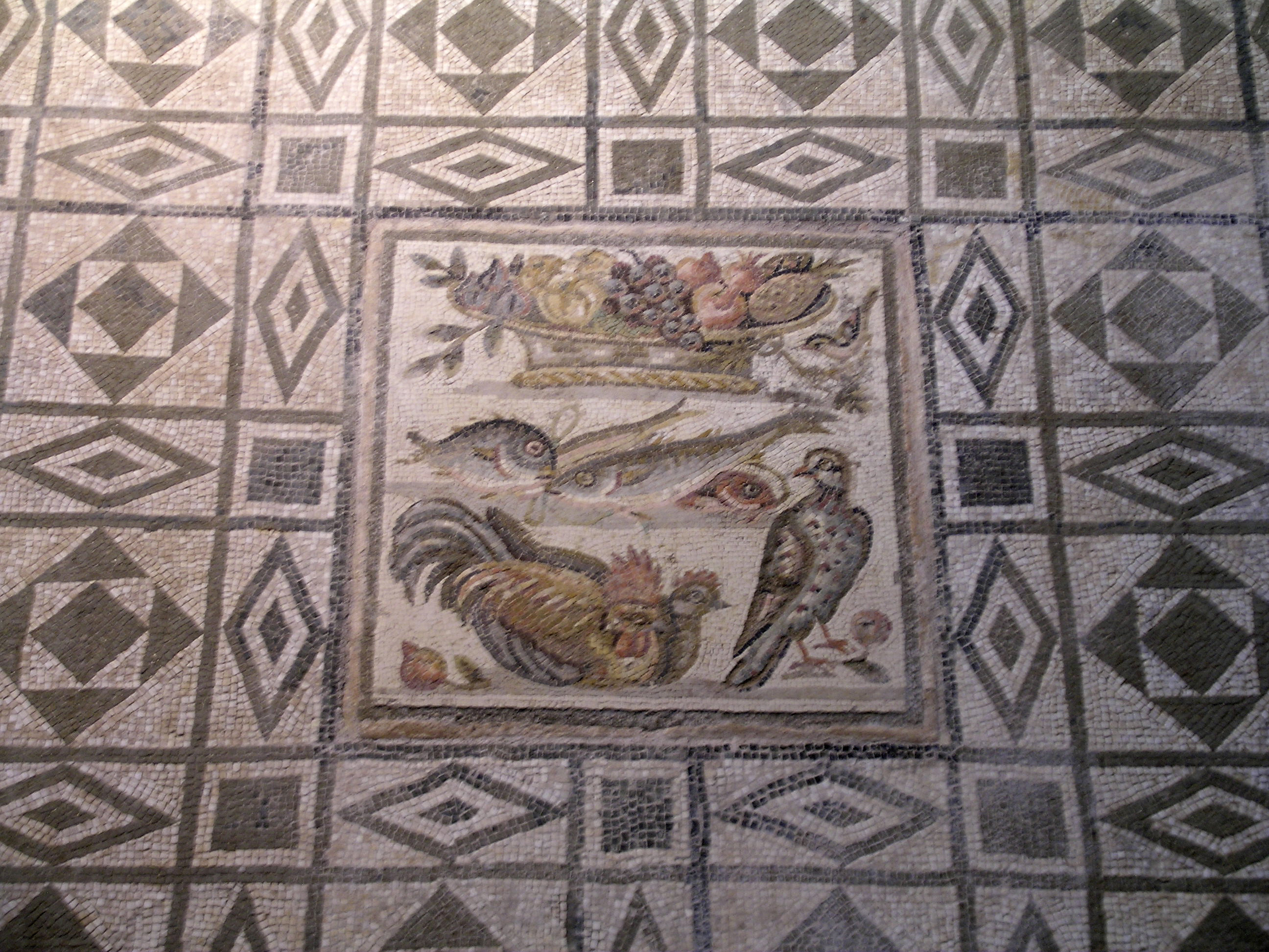 Geometrical pavement mosaic from Grotta Celoni on the via Casilina (Rome). Palazzo Massimo alle Terme.